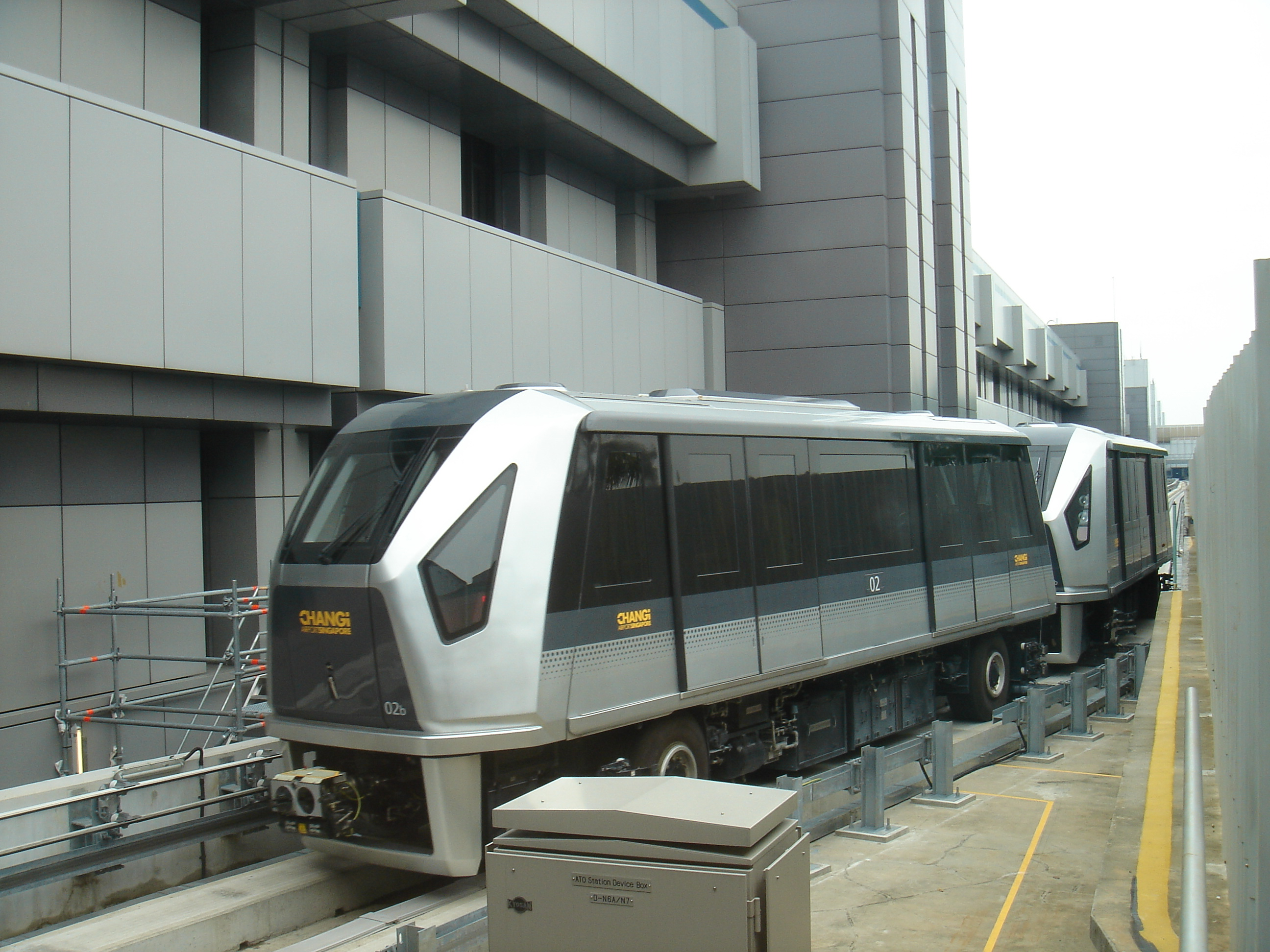 Exterior of CrystalMover Skytrain, Changi Airport, Singapore.